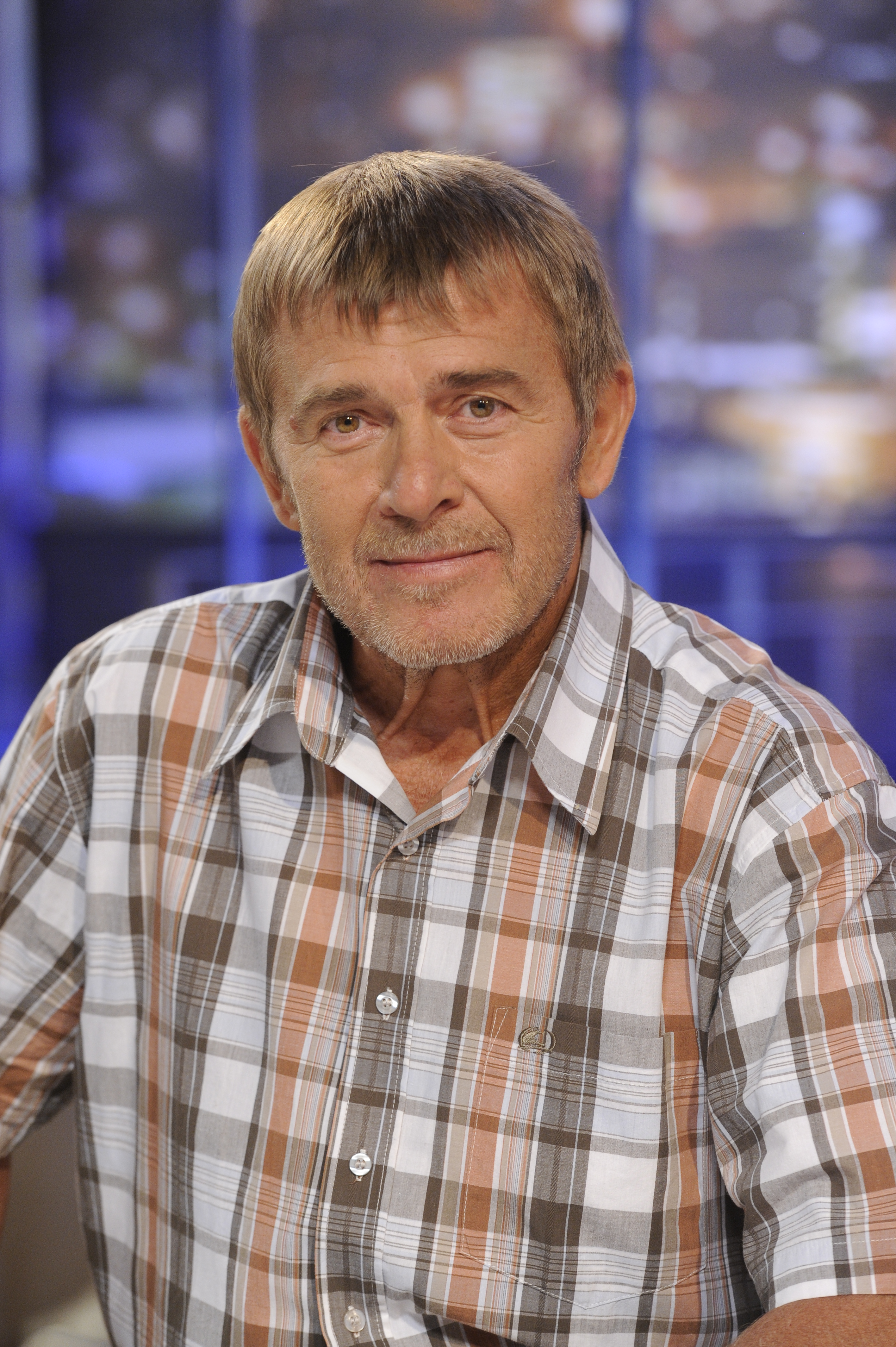 Hungarian humorist, performer, actor: Andras Nagy Bando